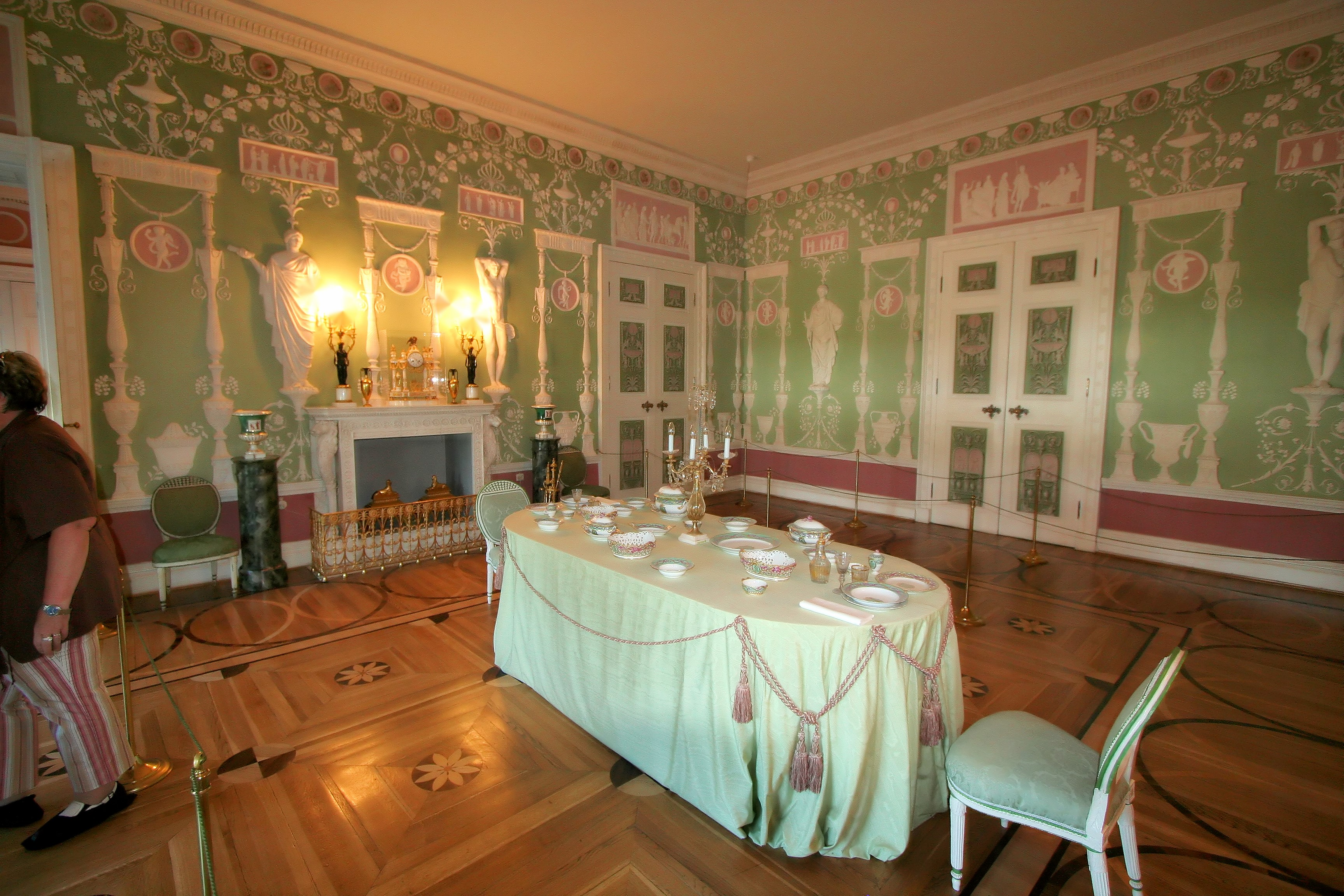 Green Dining Room in the Catherine Palace at Tsarskoye Selo. Designed by project of Charles Cameron in 1779. Destroyed during the Great Patriotic War; renovated in 1957-1959 years.